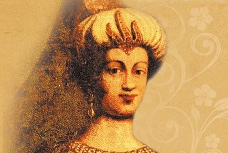 A portrait of Devetlu Izmetlu Haseki Mahpeyker Kösem Sultan Büyük Valide Sultan, the wife of Ottoman Sultan Bahti Ahmed I.